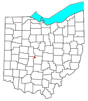 Locator map of the unincorporated community of Amlin in Franklin County, Ohio, United States.